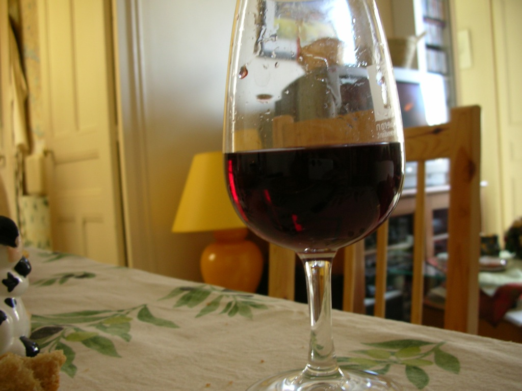 A glass of red Bandol wine from Provence, made predominately from Mourvedre.